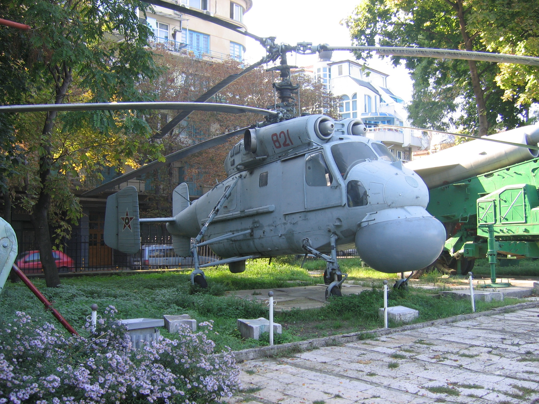 Ka-25Ts (Ka-25C) helicopter displayed in the Naval museum in Varna, Bulgaria.